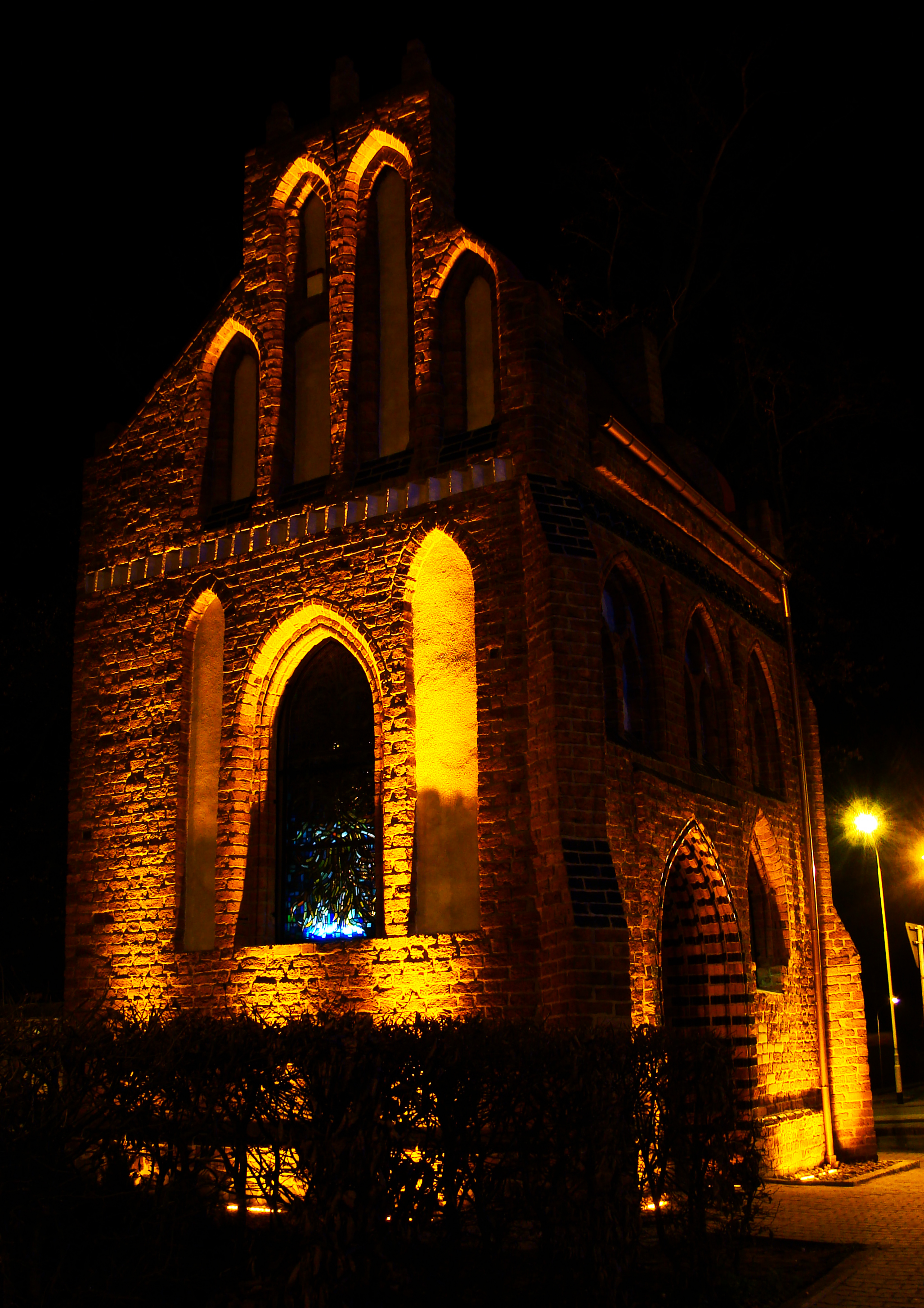 Gothic Chapel, 15th century - (illumination) in Police (West Pomeranian Voivodeship), Poland